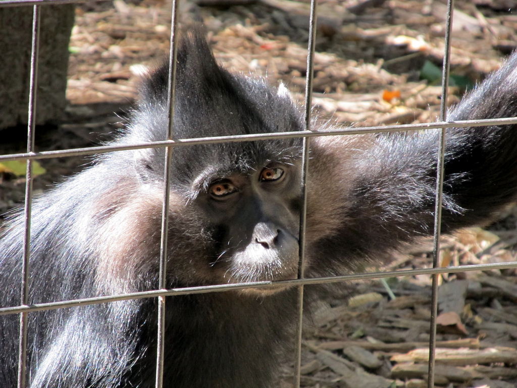 Black Crested Mangabey (Lophocebus aterrimus) in the Kansas City Zoo. This is an interesting little monkey from central Africa.